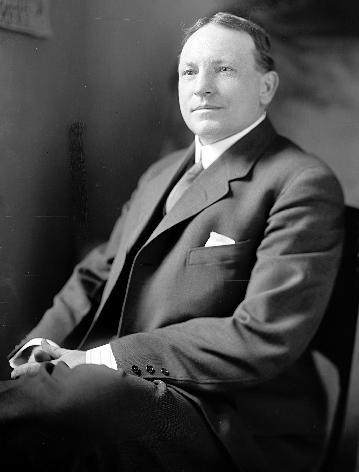 John M. Morehead, US Representative from North Carolina